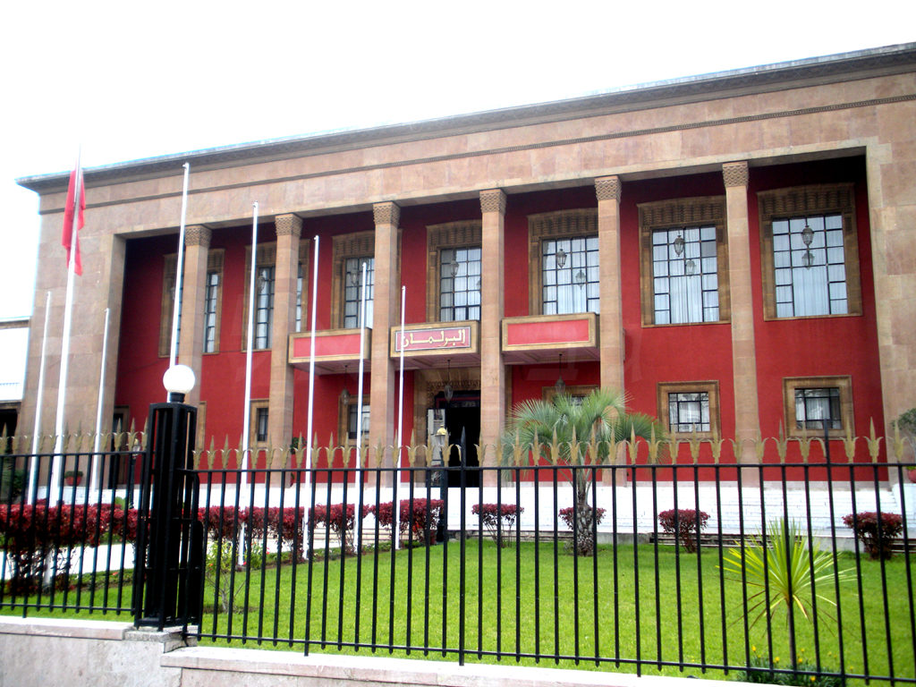 A photograph I took personally of the Moroccan Parliament building.